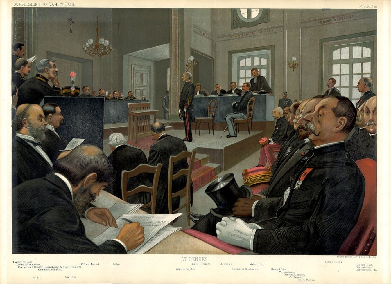 Winter supplement; double print: Caricature of The trial of Dreyfus. Col Jouaust, Capt Dreyfus, MM Labori and Demange, Gens Billot, Mercier, Zurlinden, Roget, Gonse and Boisdeffre, Col Picquart, MM Hanotaux and Cavaignac, and others. Caption reads: "At Rennes"